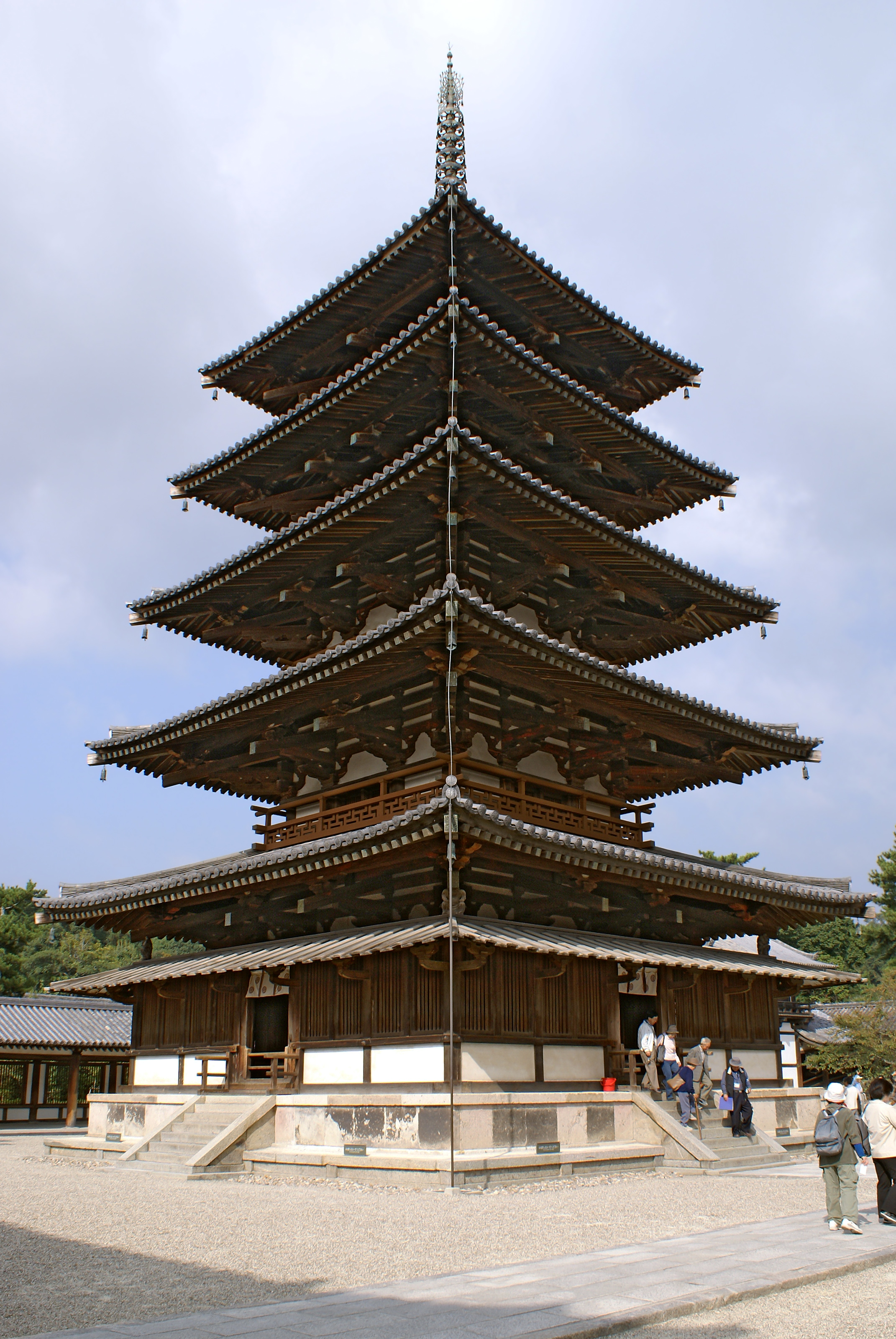 Five-storied Pagoda of Hōryū-ji is a Japan's National Treasure. Hōryū-ji is a Buddhist temple in Ikaruga, Nara prefecture, Japan. It was registered as part of the UNESCO World Heritage Site "Buddhist Monuments in the Hōryū-ji Area".